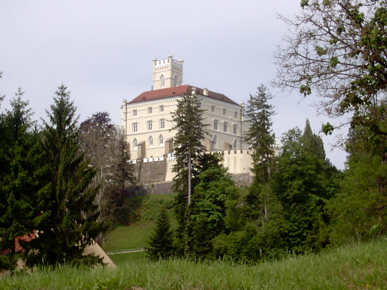 Castle Trakoscan, northwest Croatia